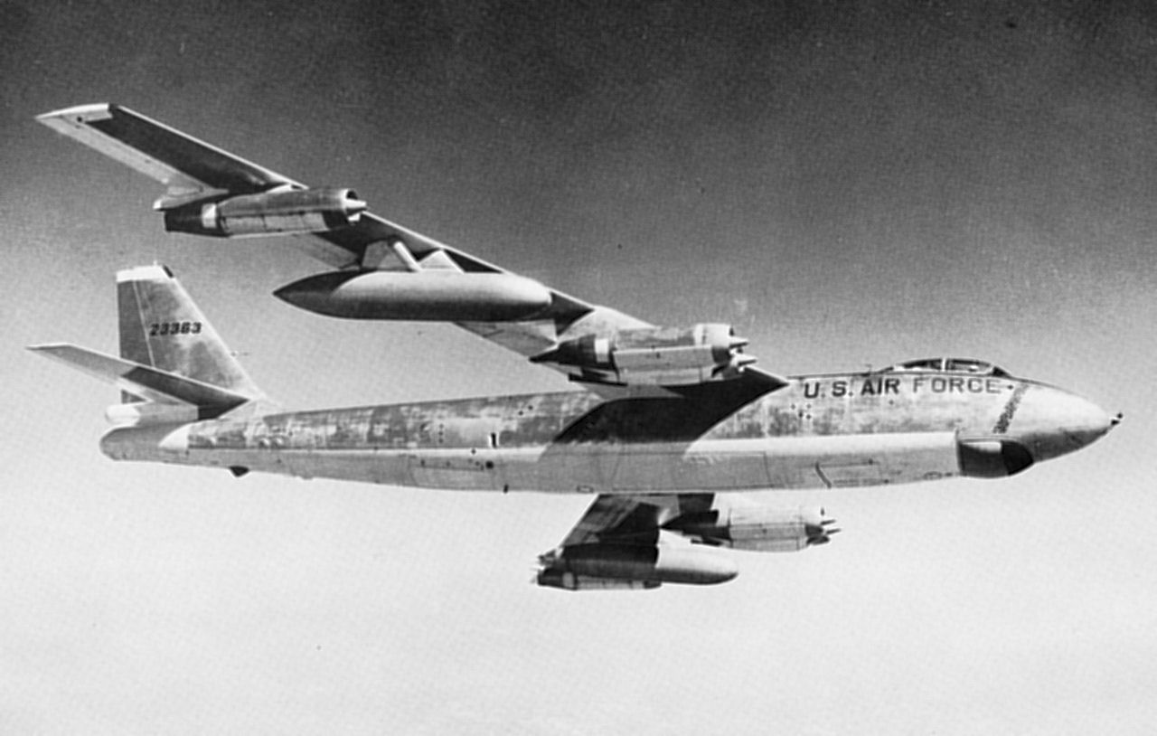 2d Bombardment Wing Lockheed B-47E-50-LM Stratojet 52-3363, stationed at Hunter AFB, Georgia